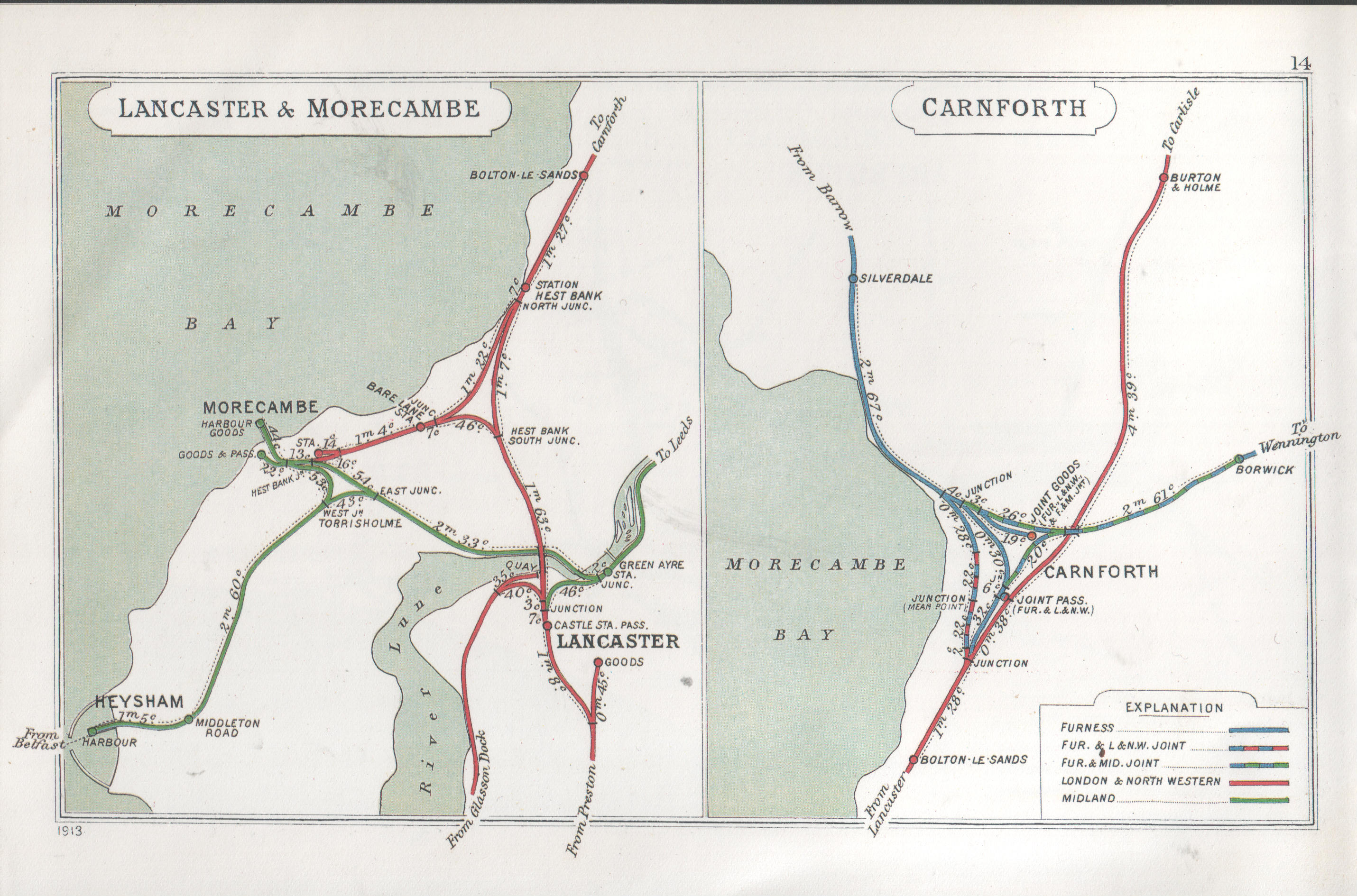 Pre Grouping railway junction around Lancaster & Morecambe, Carnforth